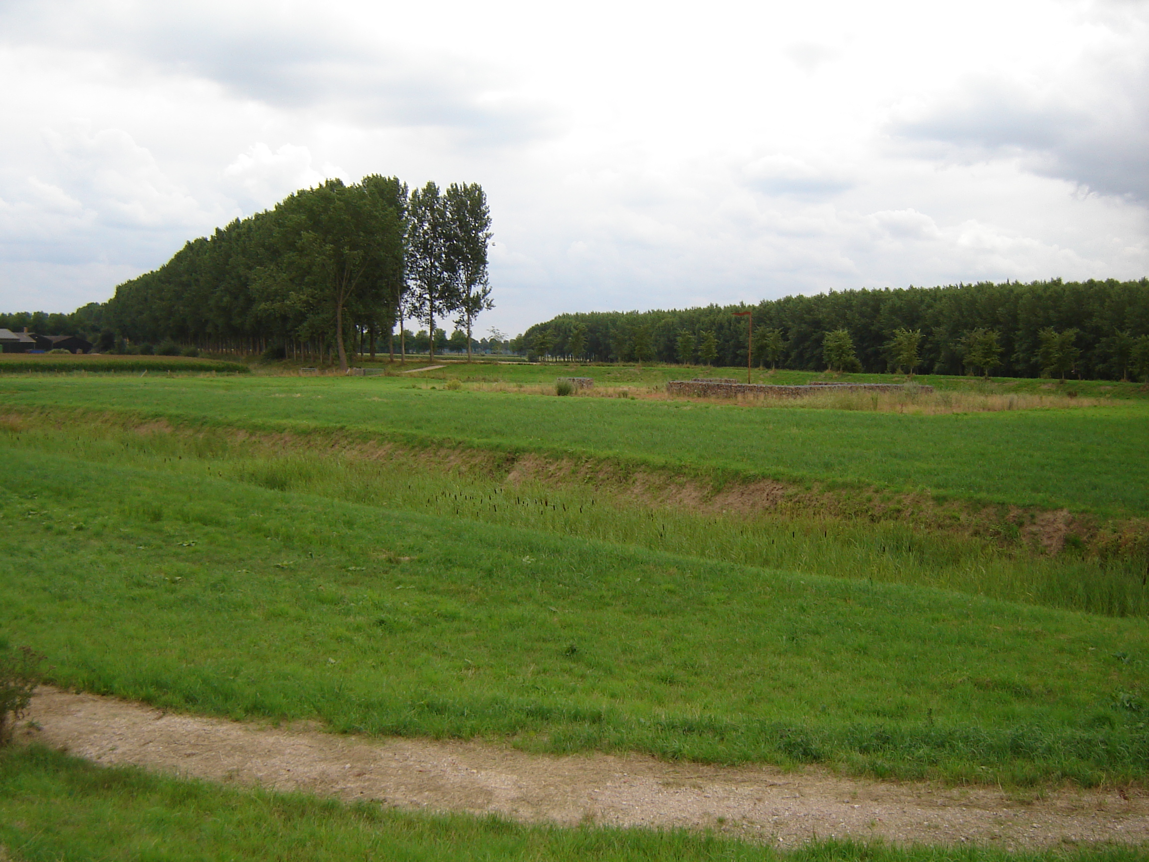 Fort Sint-Joseph in Koewacht. Koewacht, Terneuzen, Zeeland, Netherlands.